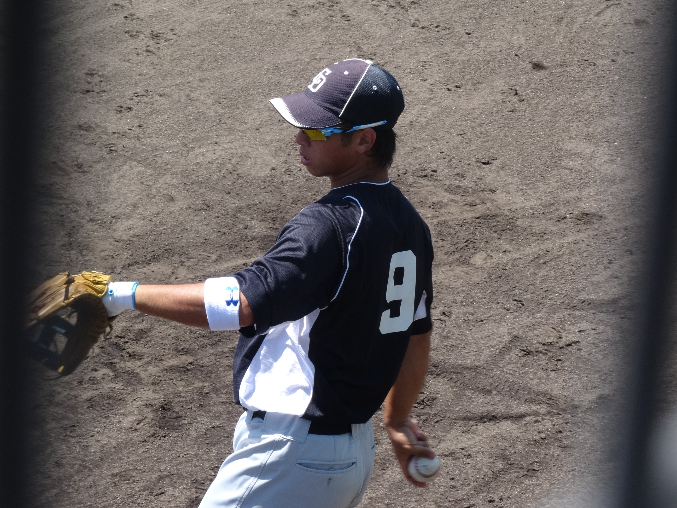 Shun Ishikawa, infielder of the Chunichi Dragons, at Hanshin Naruohama Baseball Ground